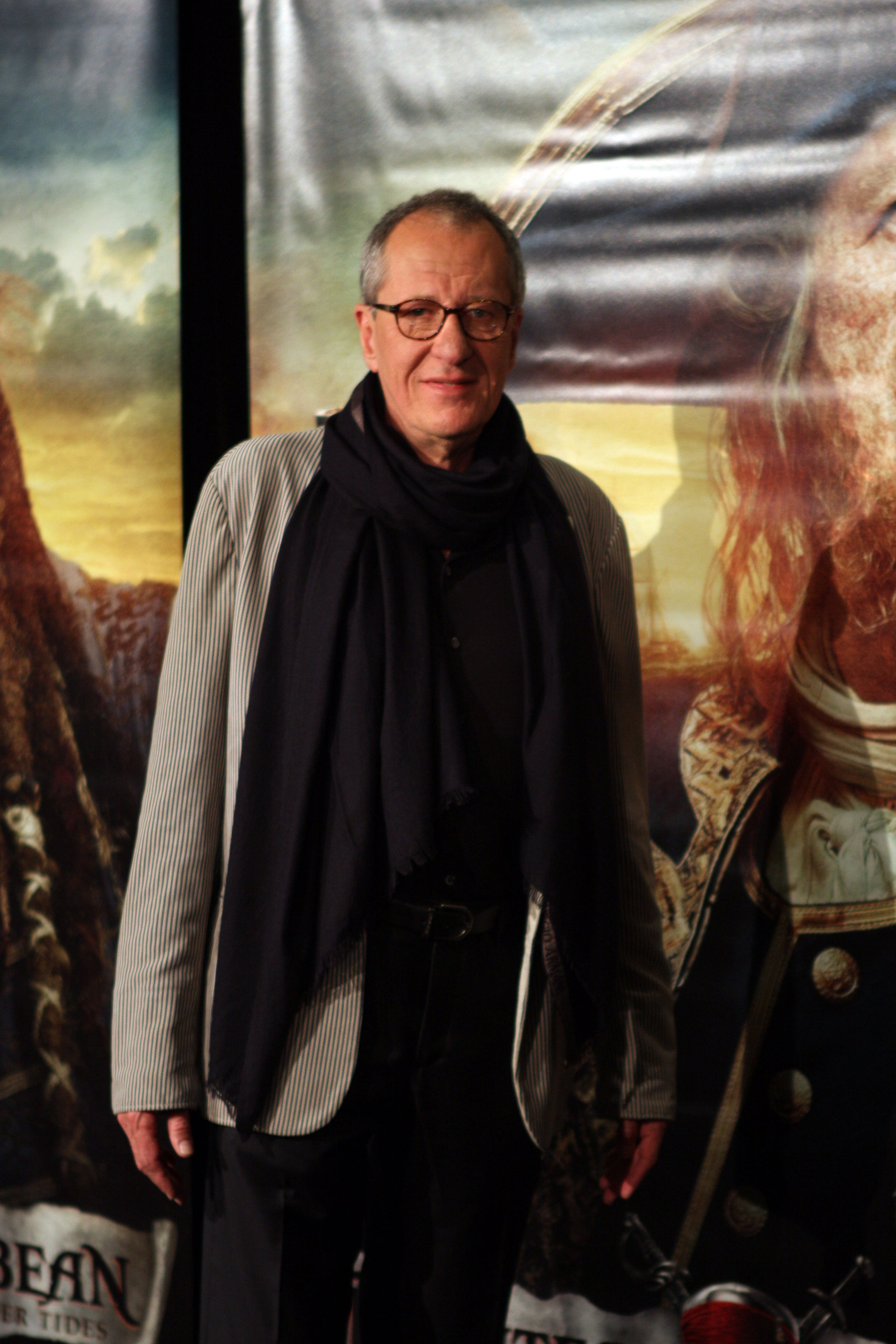 Pirates Caribbean Geoffrey Rush